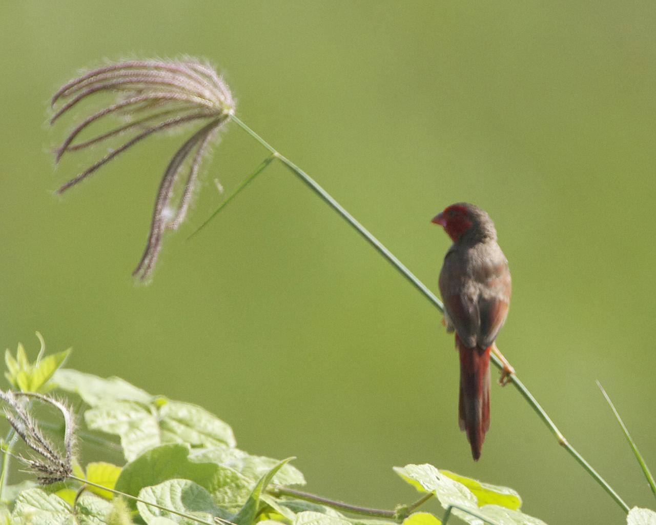 Crimson Finch Neochmia phaeton Nominatre race, Neochmia phaeton phaeton Darwin, Northern Territory, Australia 9th.August 2010 690V9703